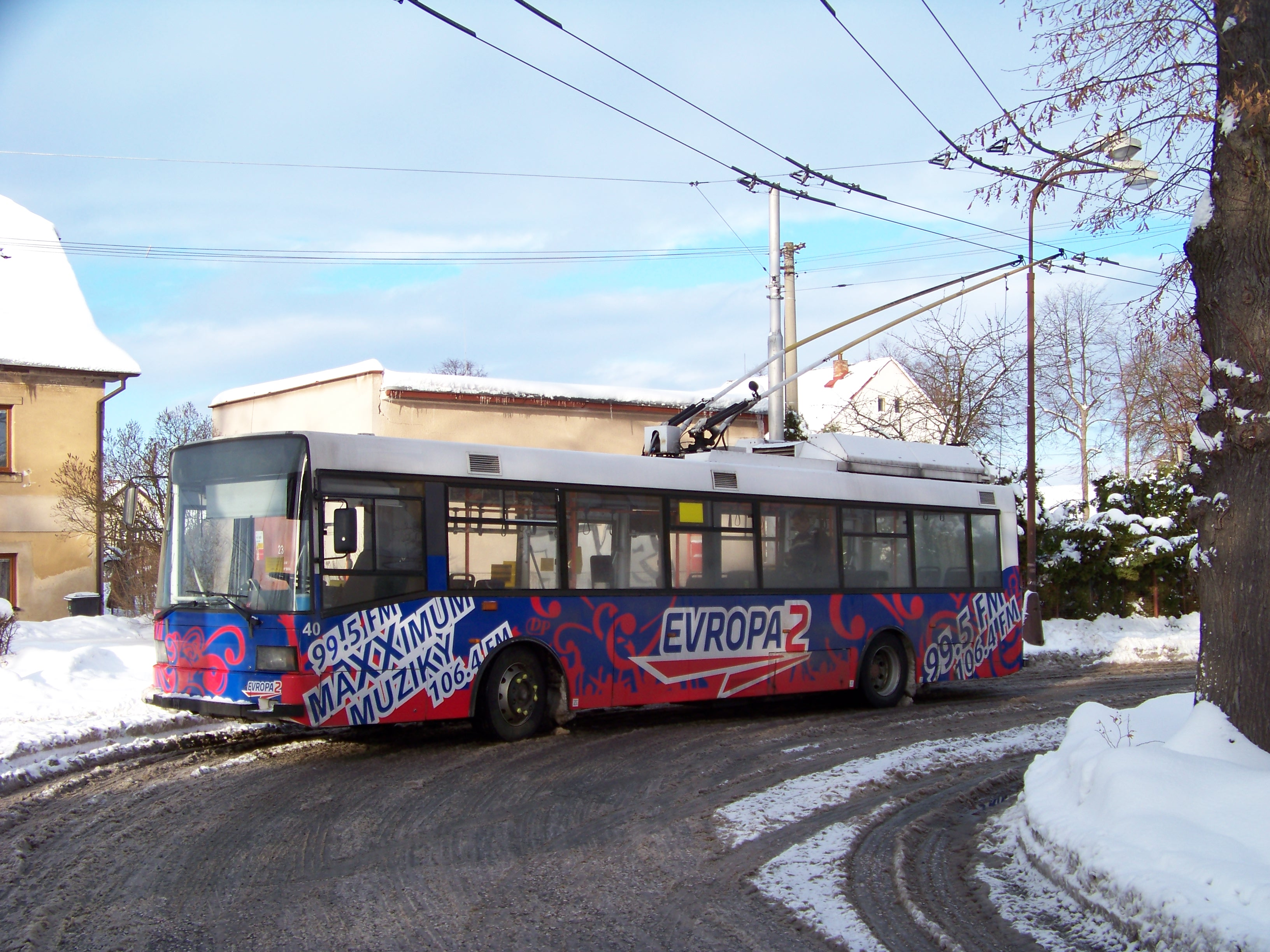 Hradec Králové-Nový Hradec Králové, the Czech Republic. Svatováclavské Square, a trolleybus with broadcasting station advertisement.